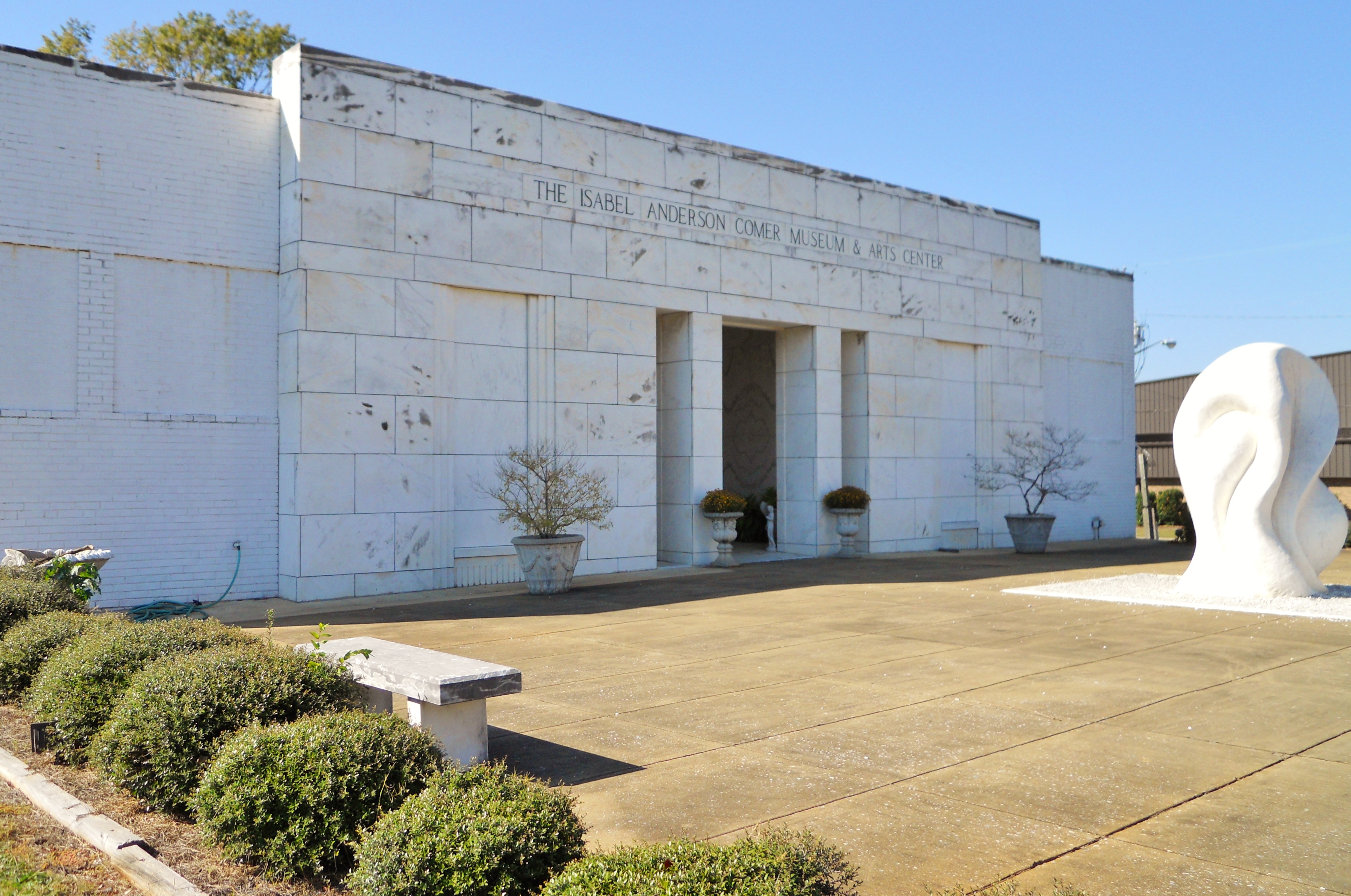 This is a photograph of the Isabel Anderson Comer Museum and Arts Center in Sylacauga, Alabama.